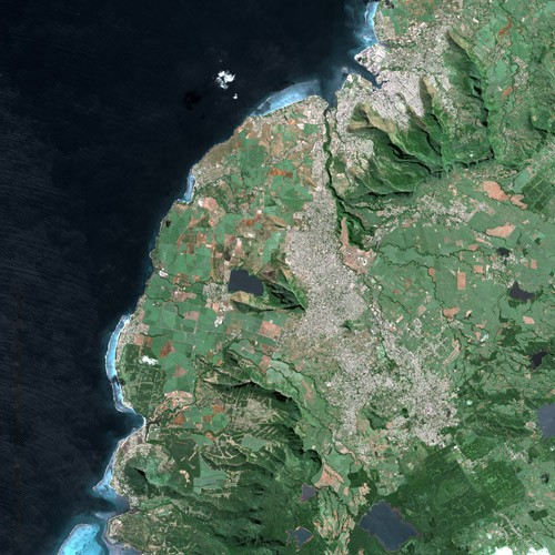 Port-Louis by SPOT Satellite